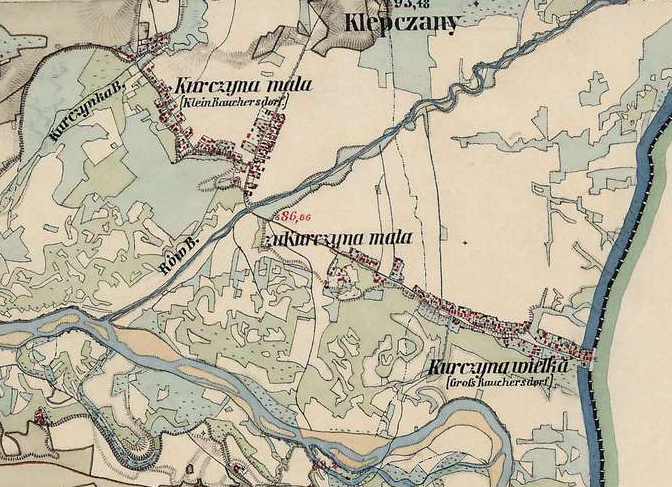 Kurzyna (Rauchersdorf) on an austrian map from around 1855